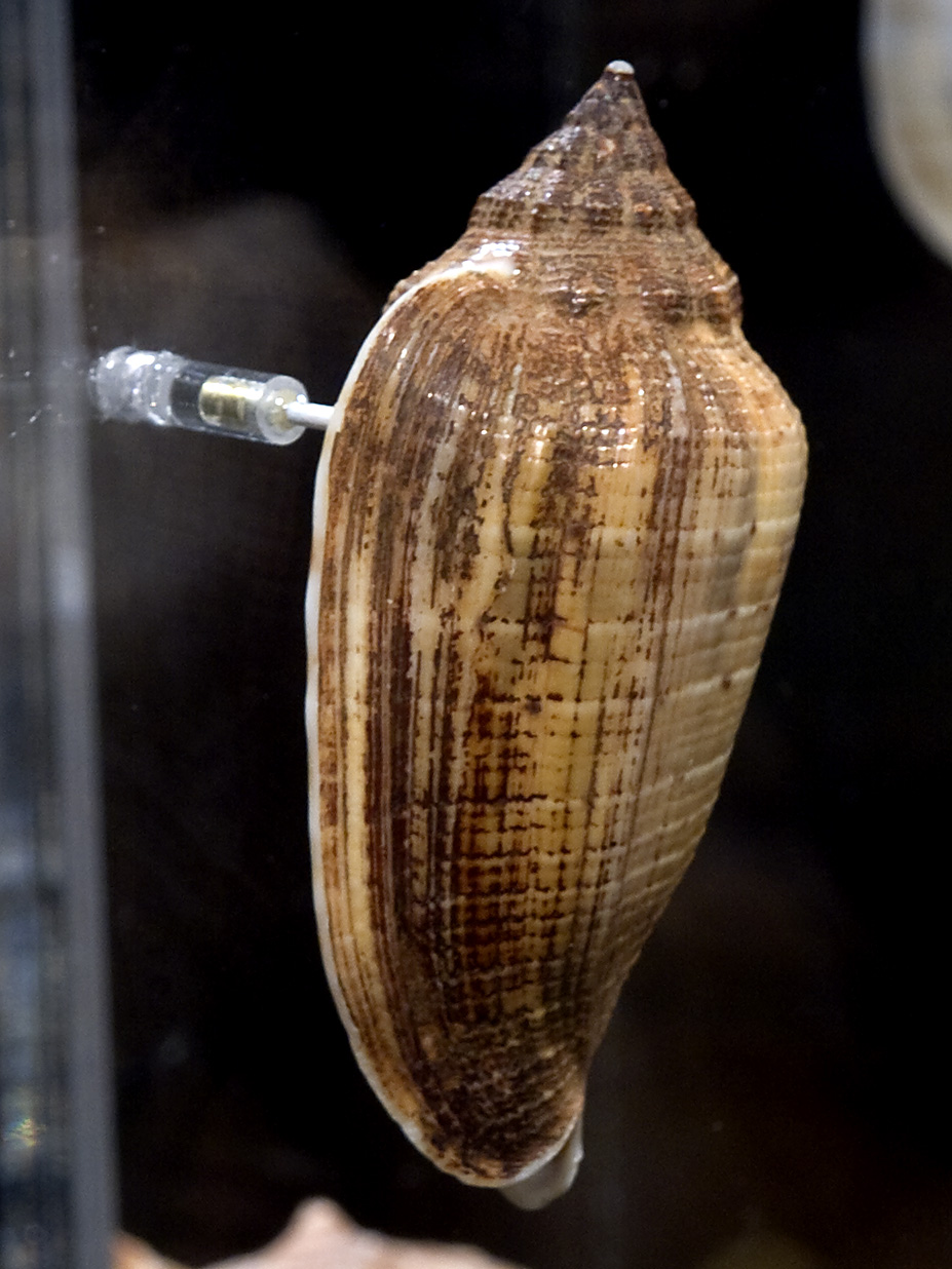 Voluta virescens (Green Music Volute) Nicaragua HMNS 26034 Wikipedia Loves Art at the Houston Museum of Natural Science This photo of item # 26034 at the Houston Museum of Natural Science was contributed under the team name "Assignment_Houston_One" as part of the Wikipedia Loves Art project in February 2009. Houston Museum of Natural Science The original photograph on Flickr was taken by skarsol—please add a comment to the original Flickr page whenever a use has been made on Wikipedia or another project. Project galleries on Flickr: this institution, this team